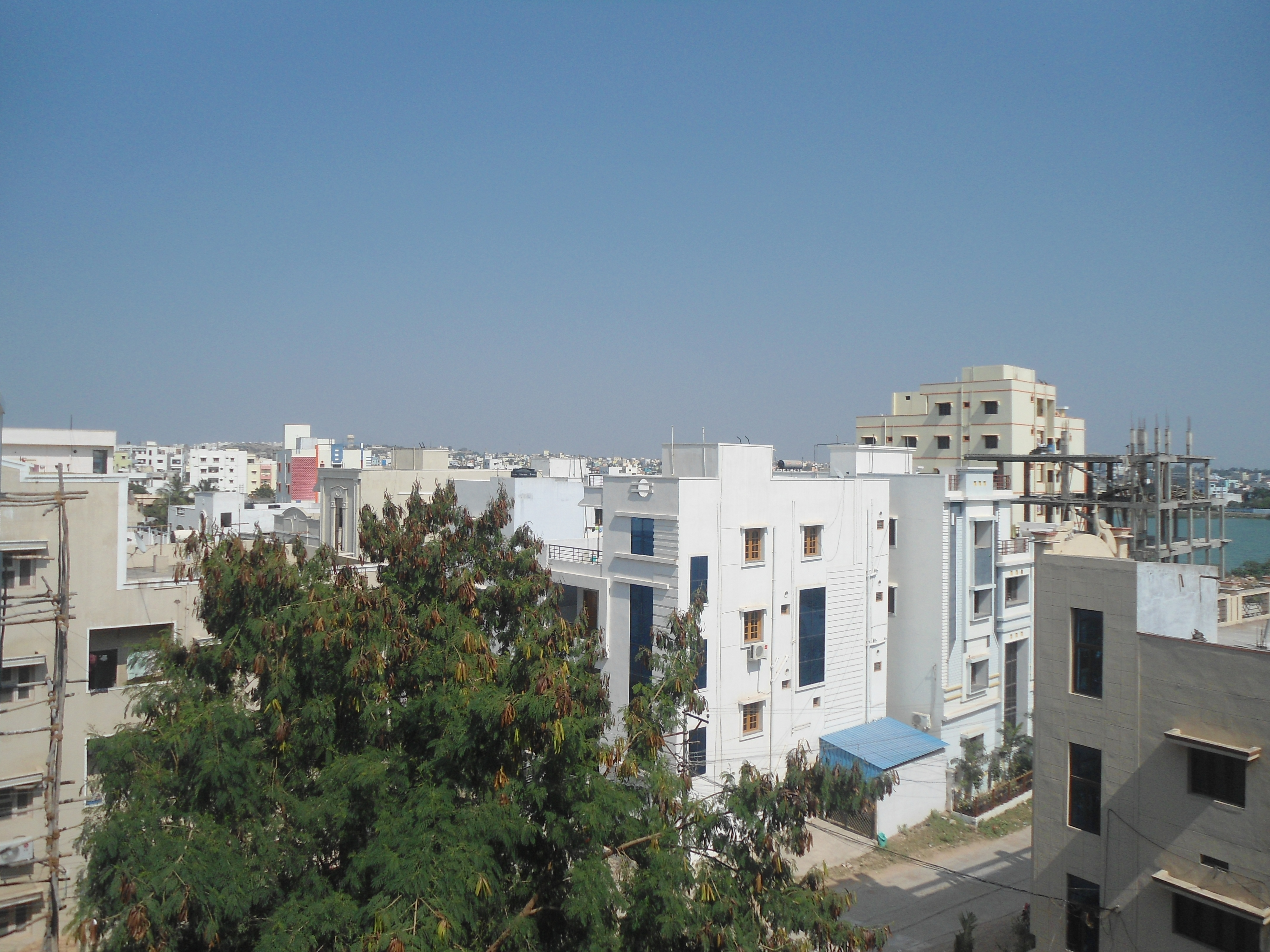 View of Kukatpally area in Hyderabad, India